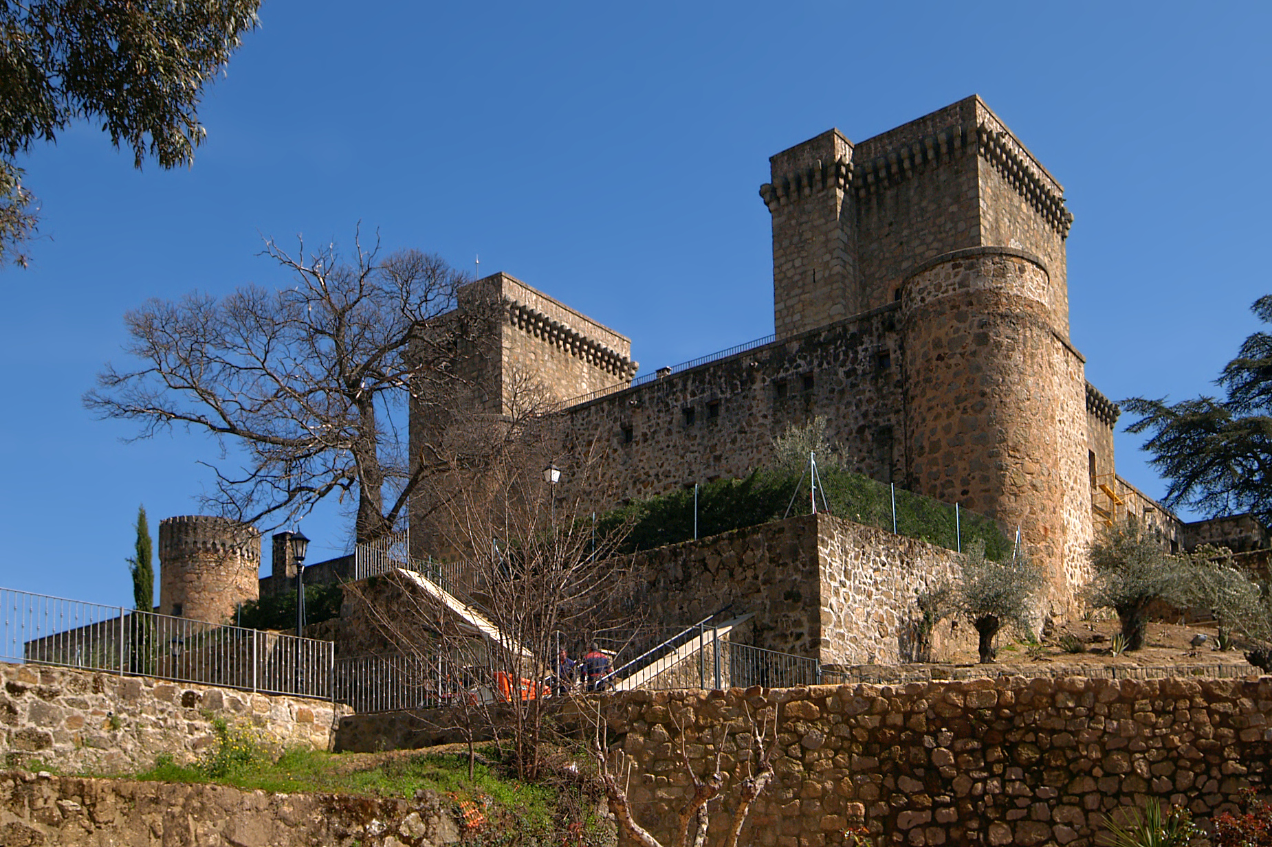 Castle of Jarandilla de La Vera